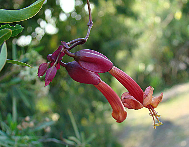 Known as Sach Huasca, from Juyjuy Provinice, Argentina. In context at